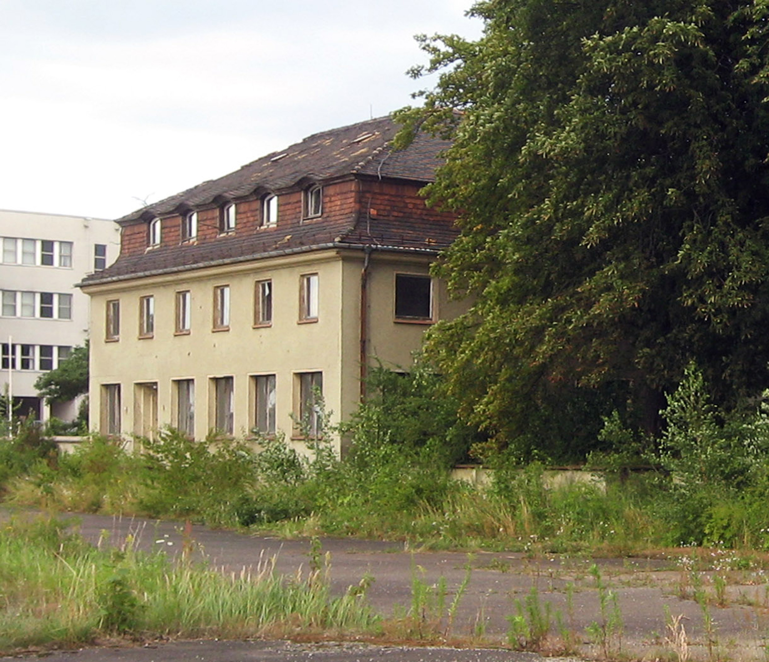 Old airport hotel at the Airport Leipzig-Mockau, later Mitropa Airport Restaurant, built in 1913 by Otto Wilhelm Scharnberg